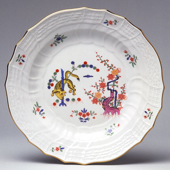 plate, yellow lion